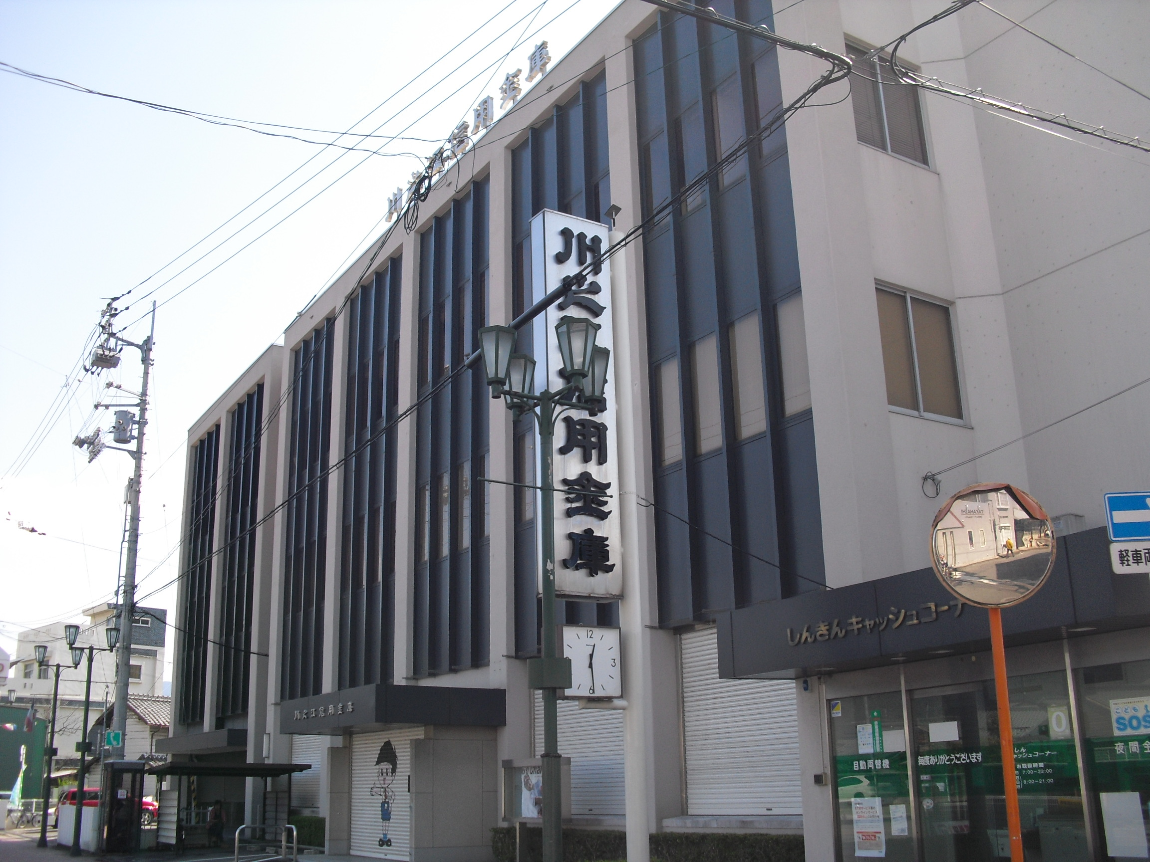 Kawanoe_shinkin_bank